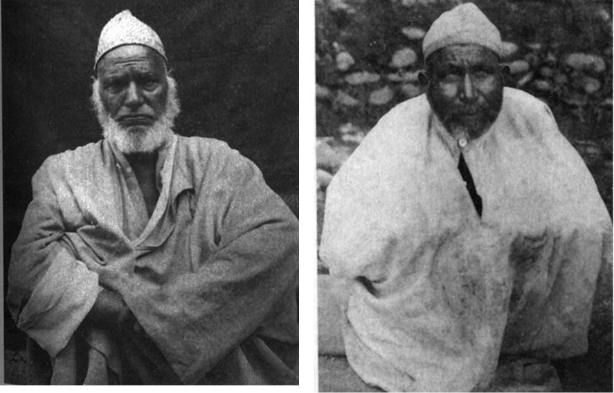 Two masts: On the left: Nab Saheb of Kashmir (Chhundangam). One of the masts of Kashmir. On the right: Rambha Mastan of Kashmir (Kangan)